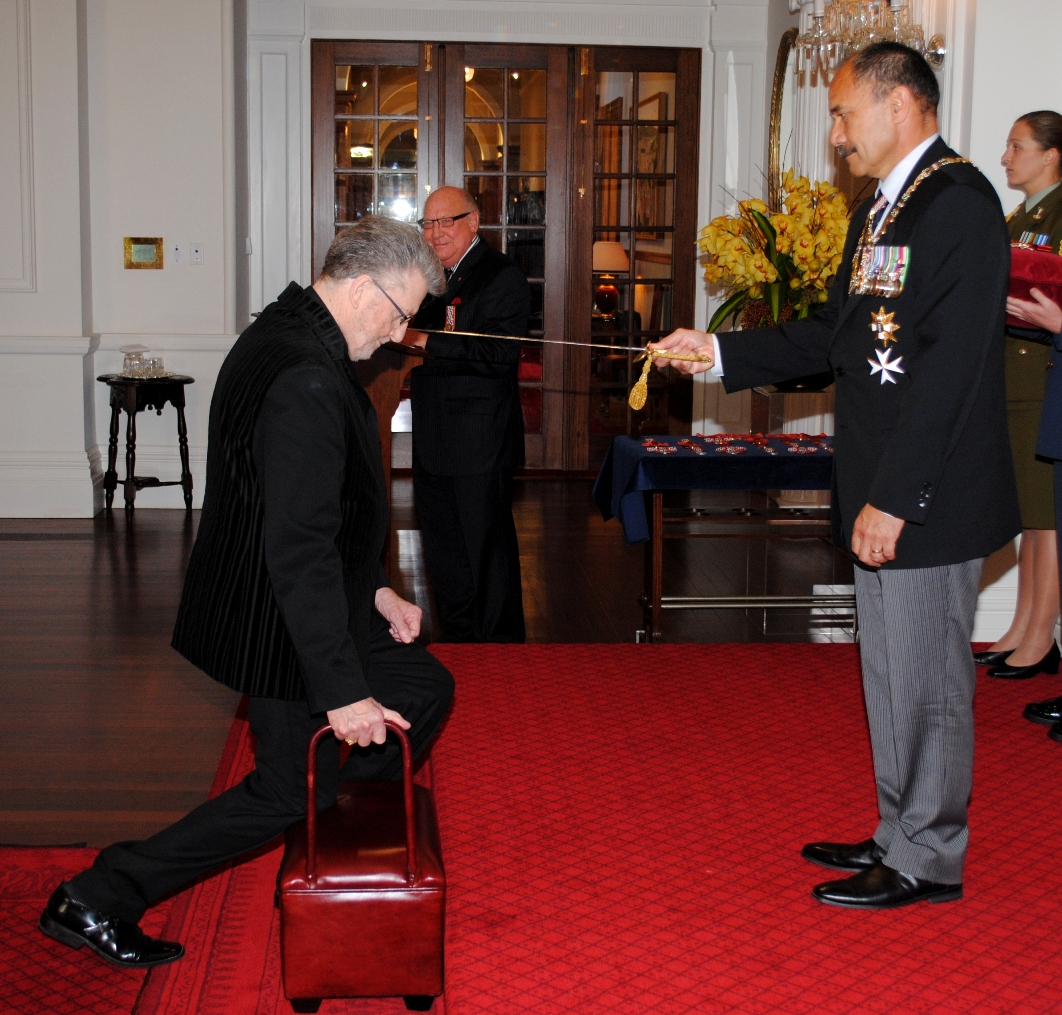 Investiture of Sir Desmond Britten as KNZM, for services to the community, by the governor-general, Sir Jerry Mateparae, on 1 May 2012